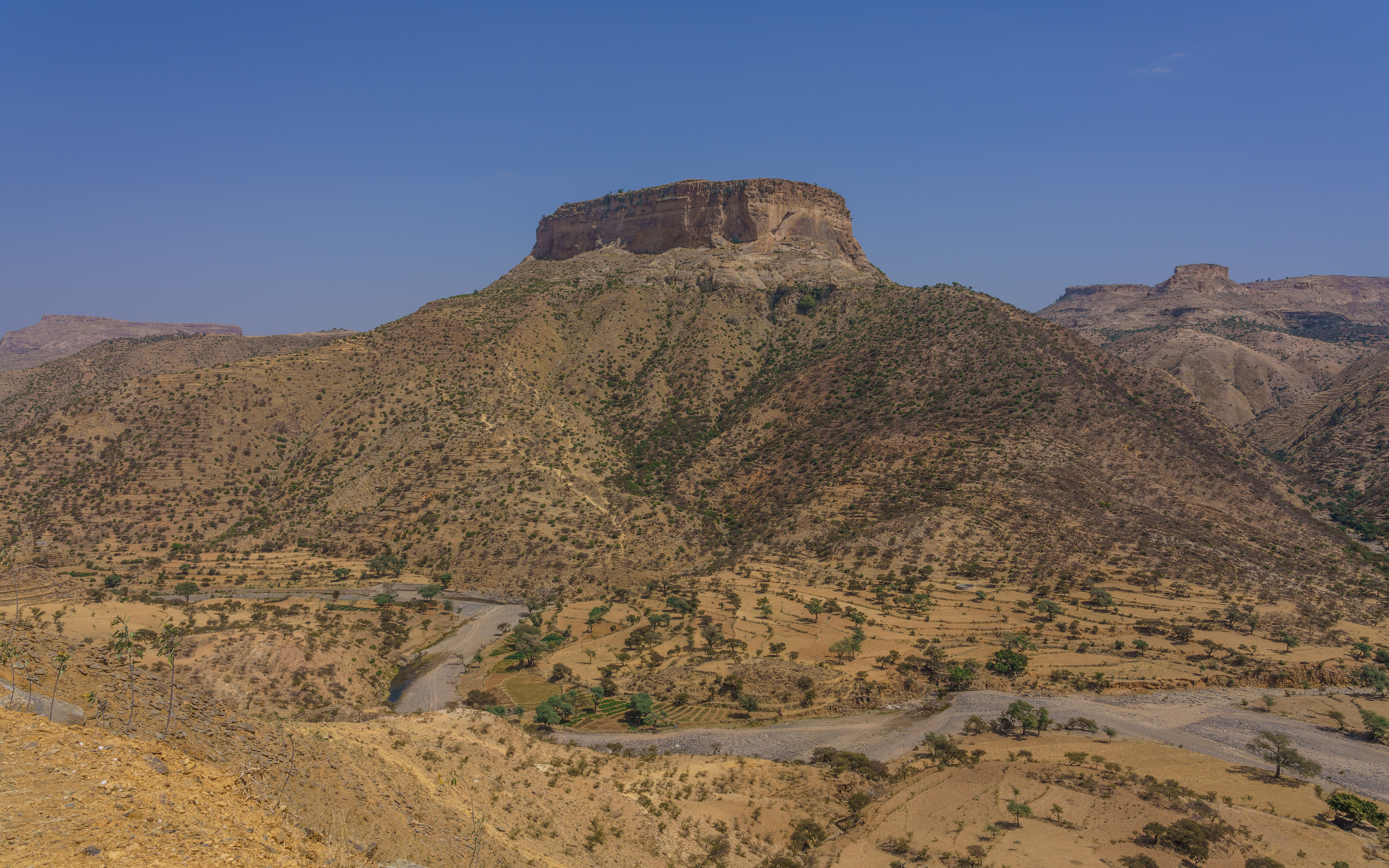 View of Debre Damo hill in Tigray Region, Ethiopia